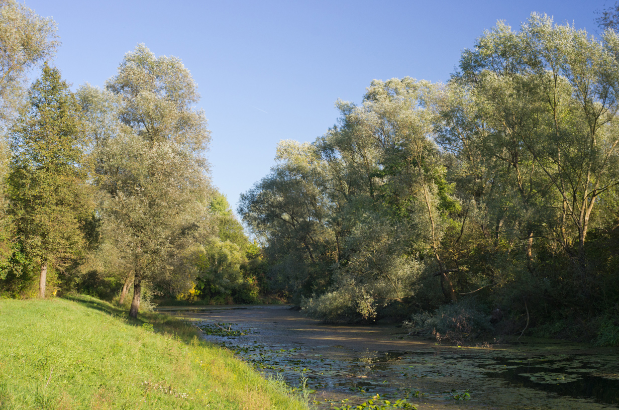 River Odra near Cicka Poljana, Croatia